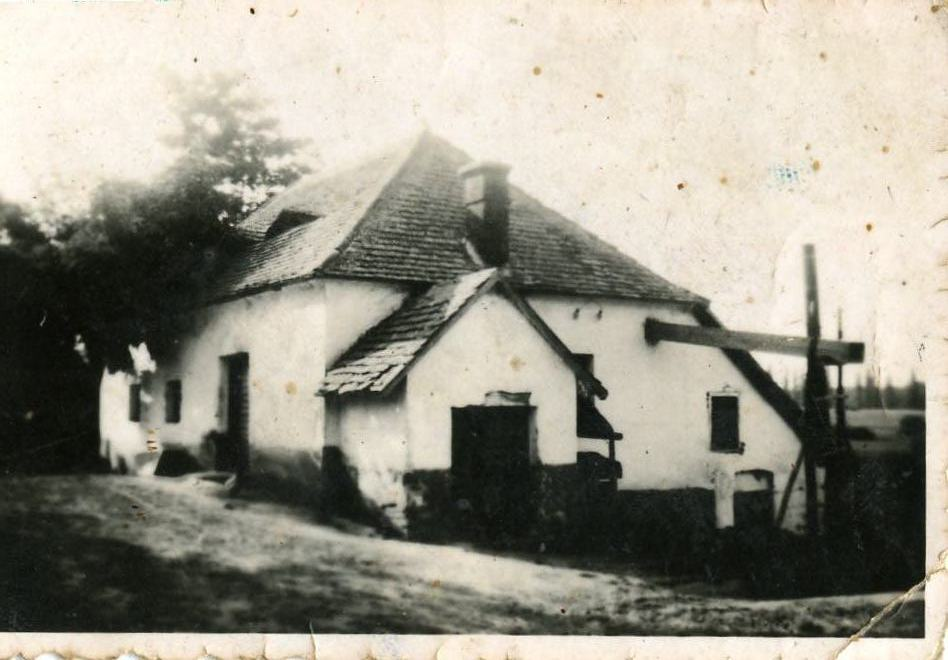 Fazekasdencs (Inke) - Watermill